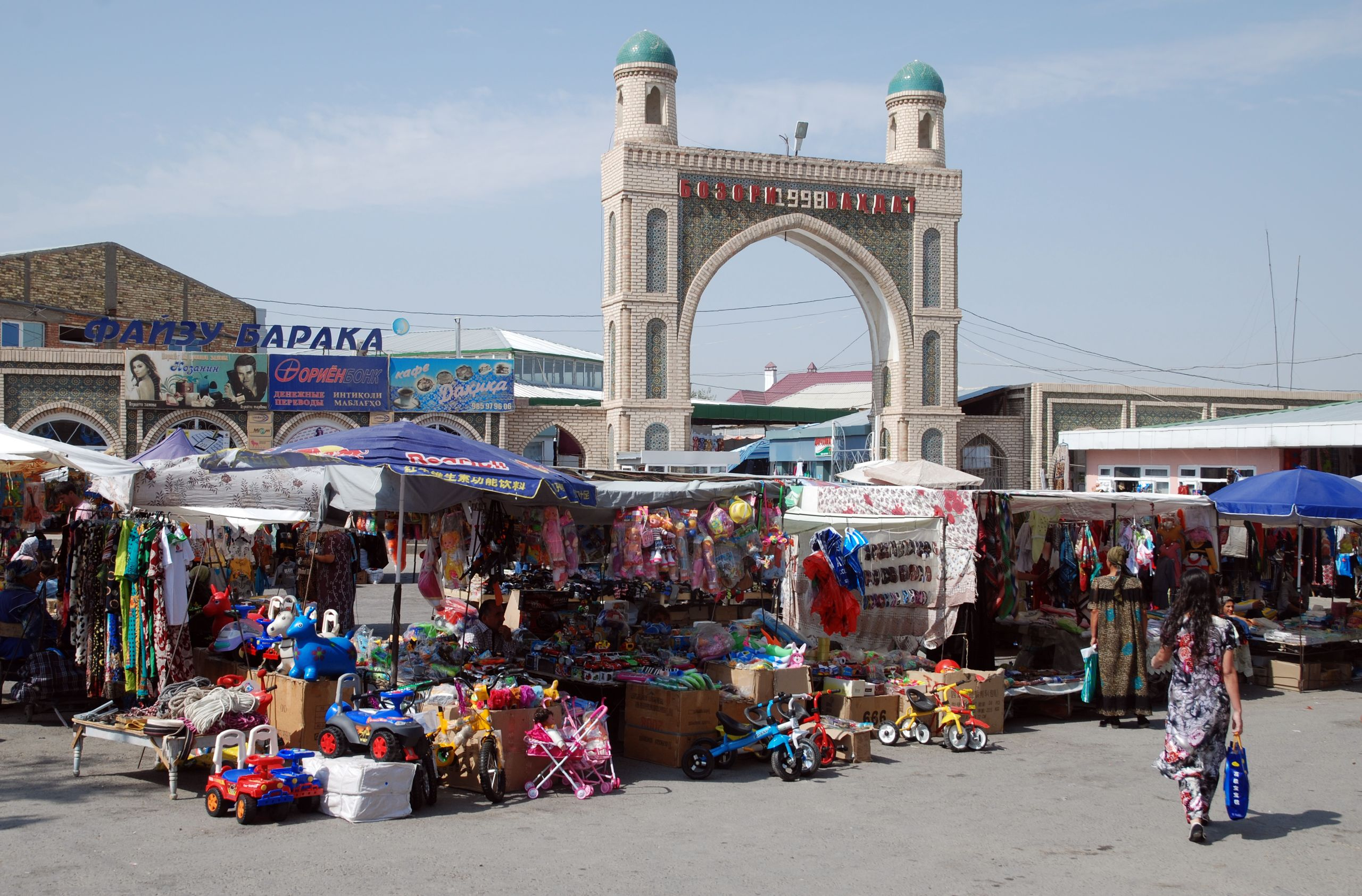 Konibodom, market